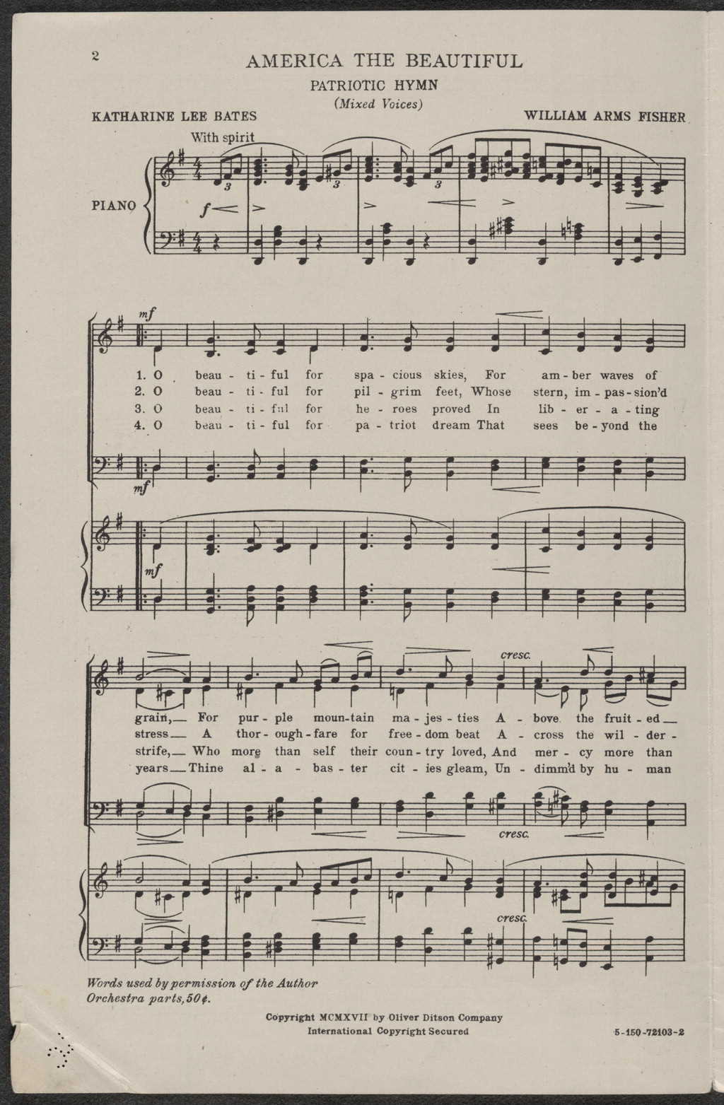 "America the Beautiful" sheet music (page 2 of 3)